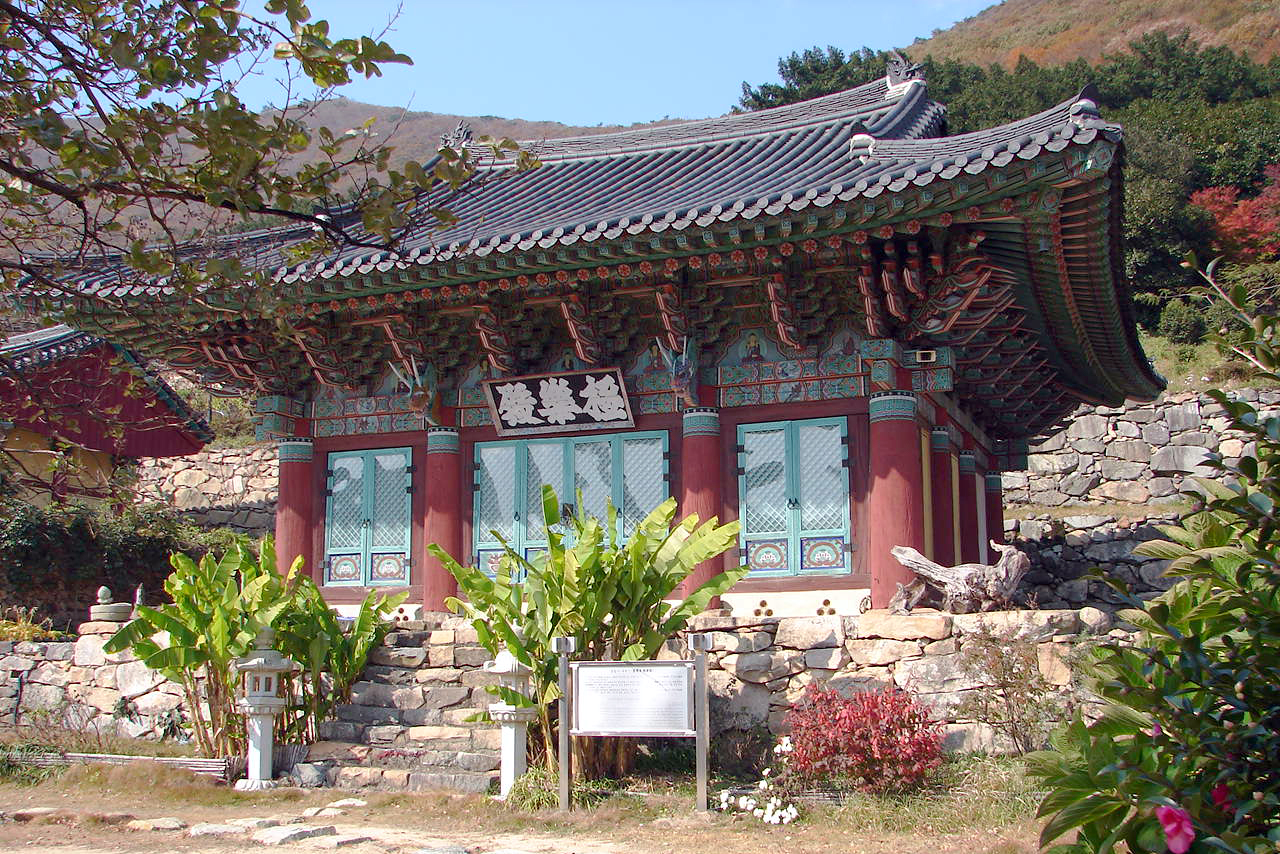 Geungnakjeon (Hall) is in the style of the last years of the Joseon period (1392-1910), The temple, however, dates from the Three Kingdoms period (57B.C.-A.D.668) when it was built as a branch of Songgwangsa Temple. It is said to have been burnt down during the 1597 Japanese Invasion and to have been reconstructed in 1604. Geungnakjeon has a hipped-and-gabled roof with eaves of the roof supported by clusters of brackets. This multi-bracketing is typical of late-Joseon architecture. Records show that the building was either repaired or rebuilt in 1846, the 12th year of the reign of Joseon's King Heonjong(1849-63). Tangible Cultural Properties 102 (Goheung-gun) Geumtapsa is at the base of Mount Cheondeungsan in Goheung county originally dates to the 7th century. One of the more prominent featuers is Natural Monument no. 239, the nutmeg forest that surrounds the temple.